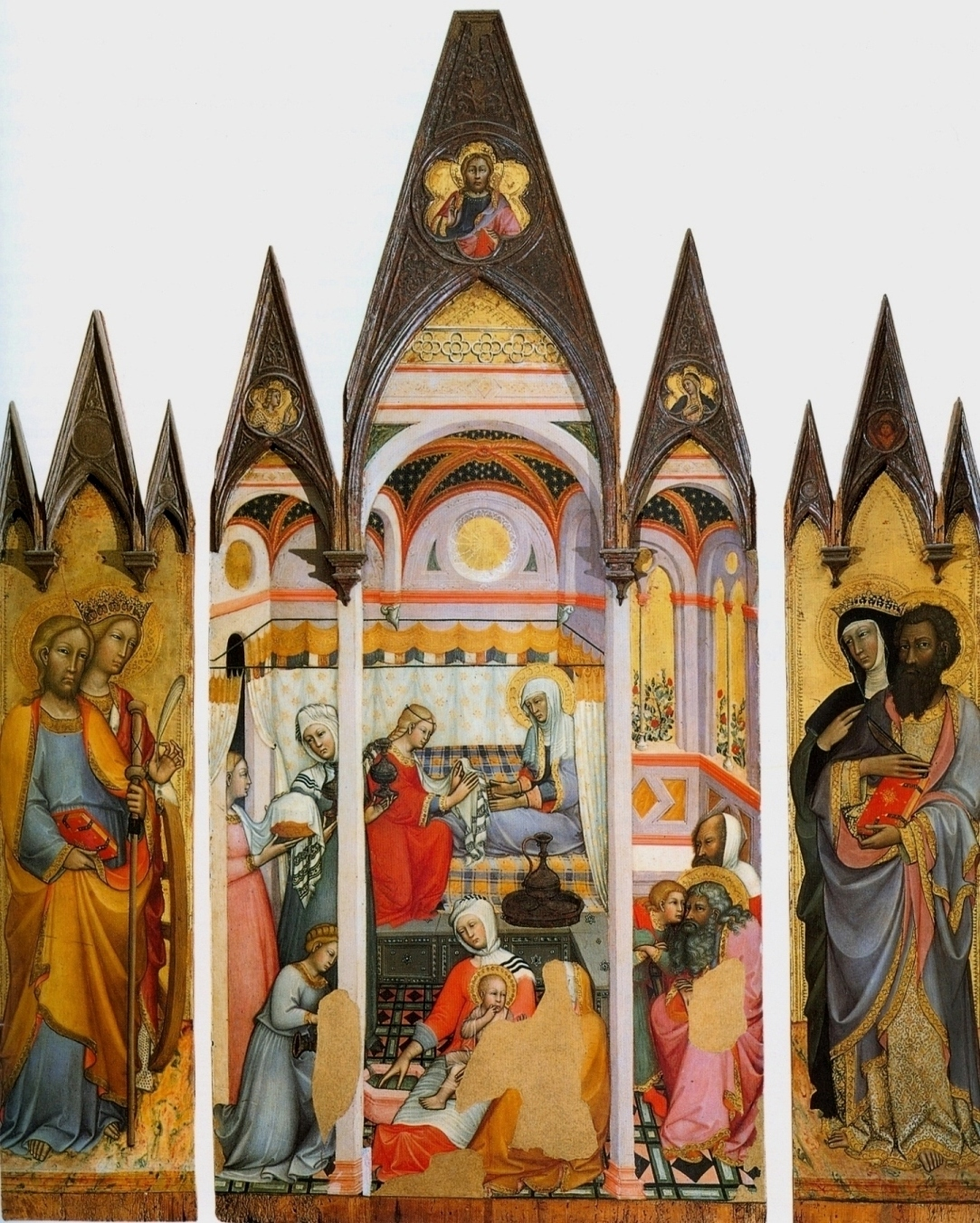 Birth of the Virgin.